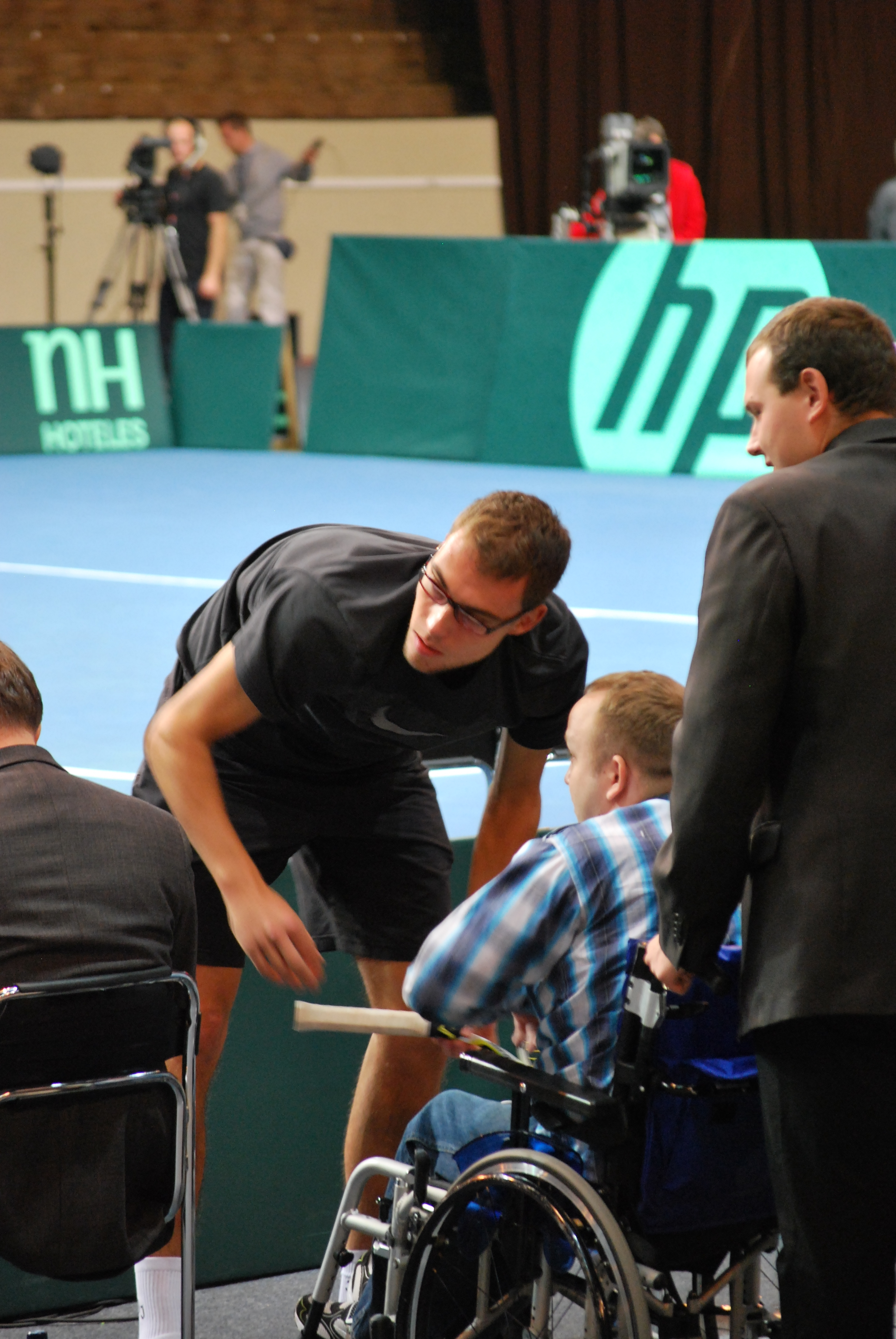 Jerzy Janowicz, tennis player from Poland, Davis Cup Łódź 2012